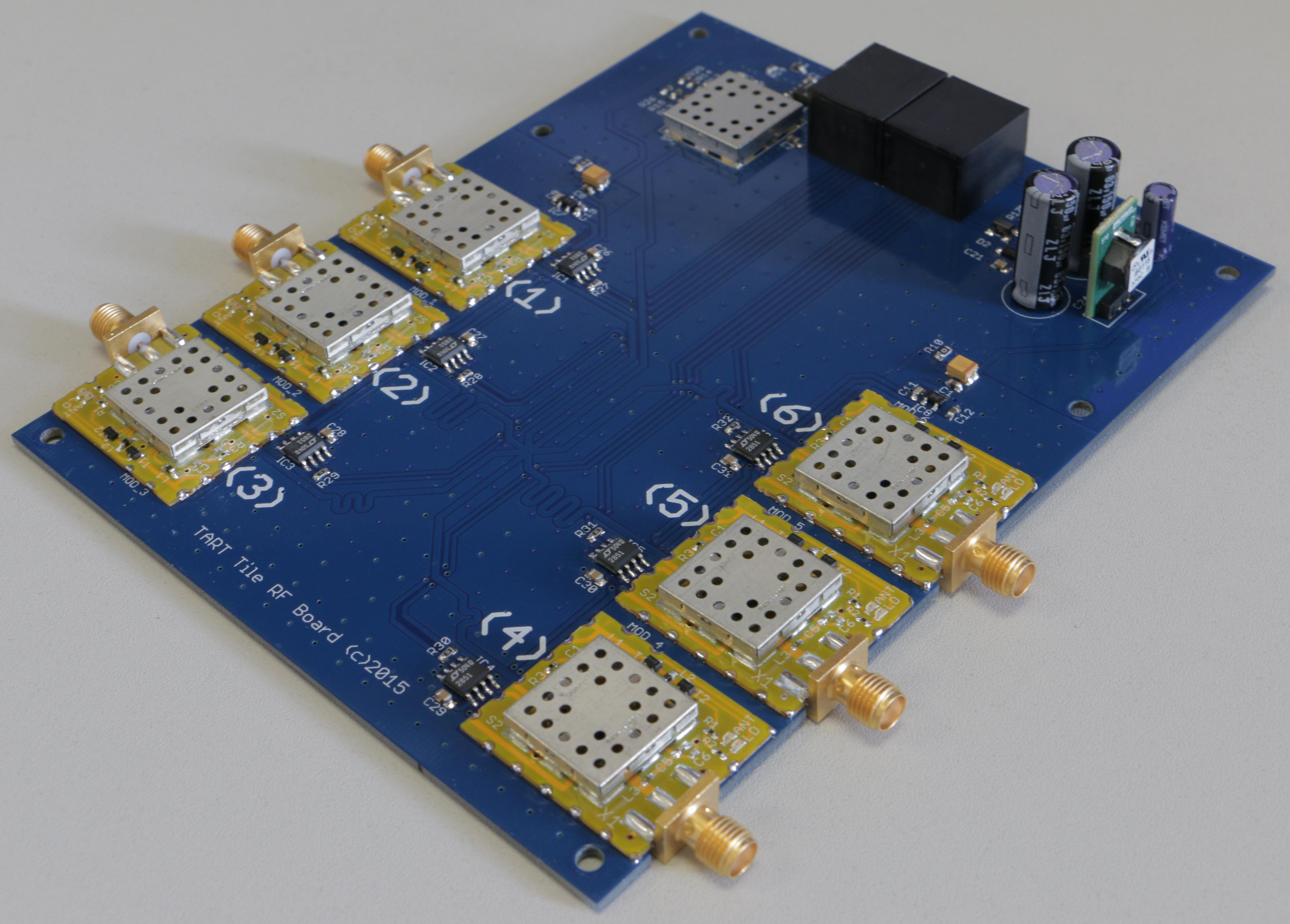 A single radio-hub module from a TART radio telescope. This consists of six radio modules with SMA connectors to antennas, as well as power-supply and data interface circuitry